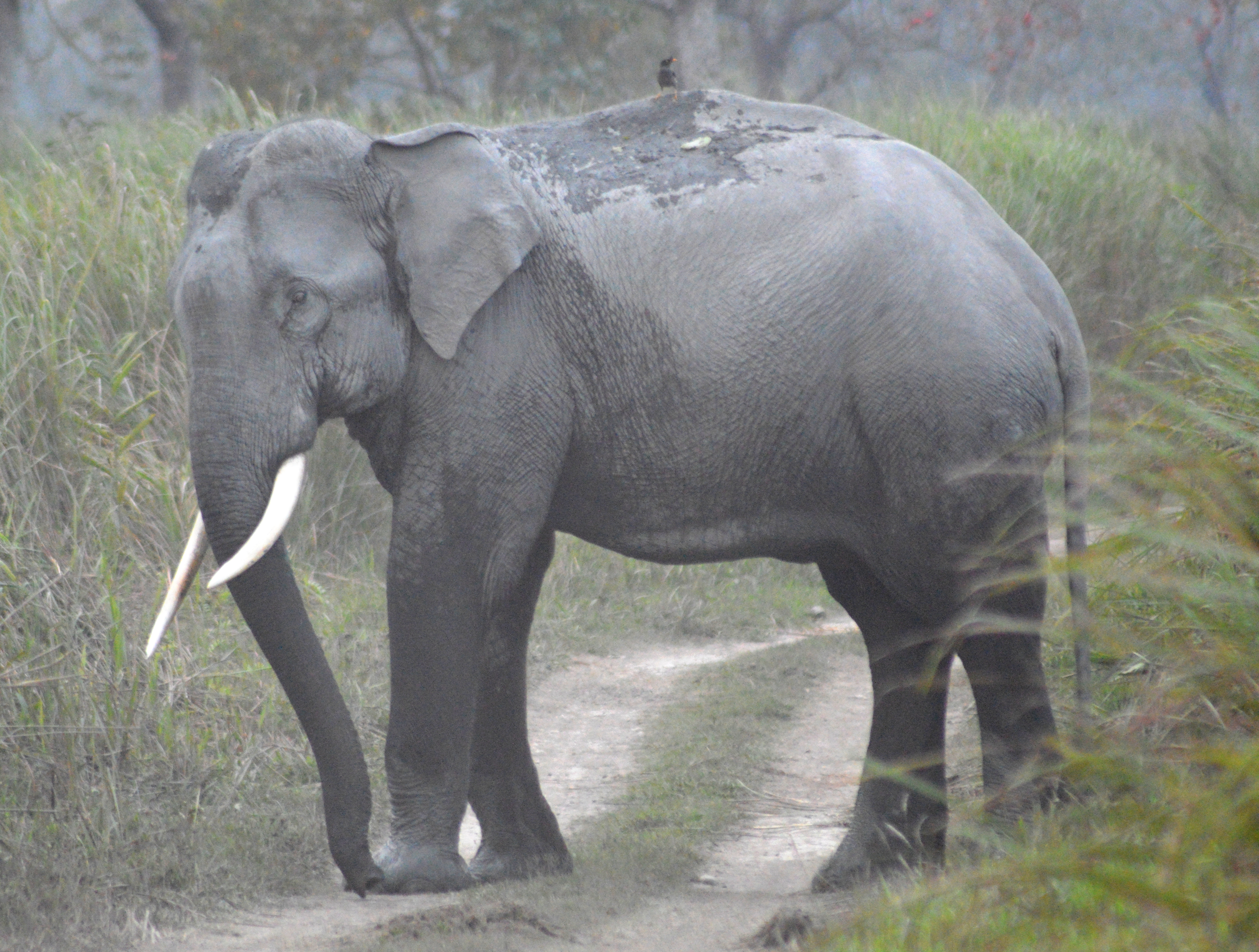 gajraj